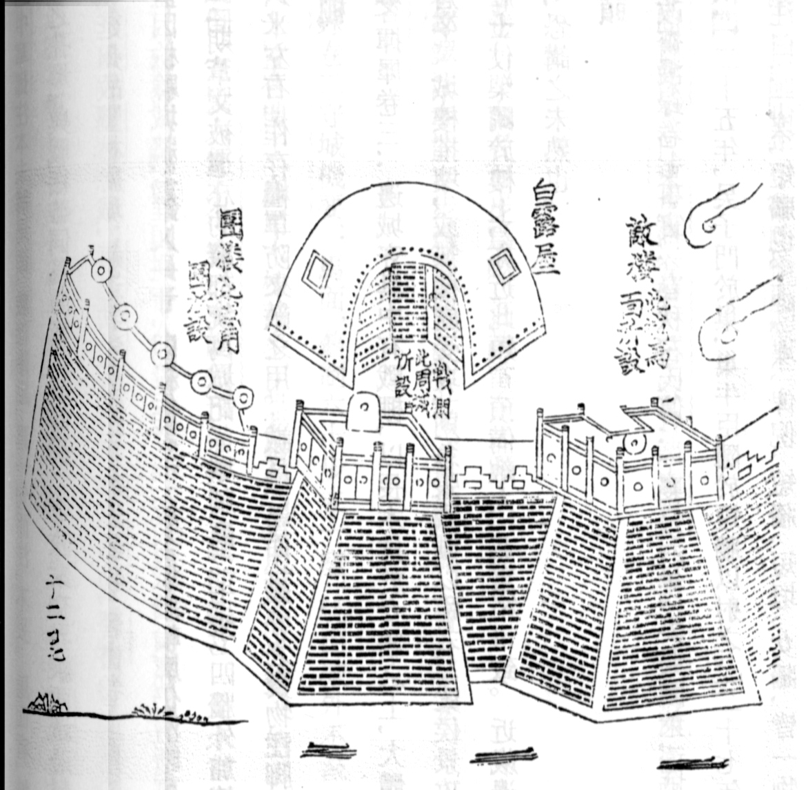 Turrets on city wall